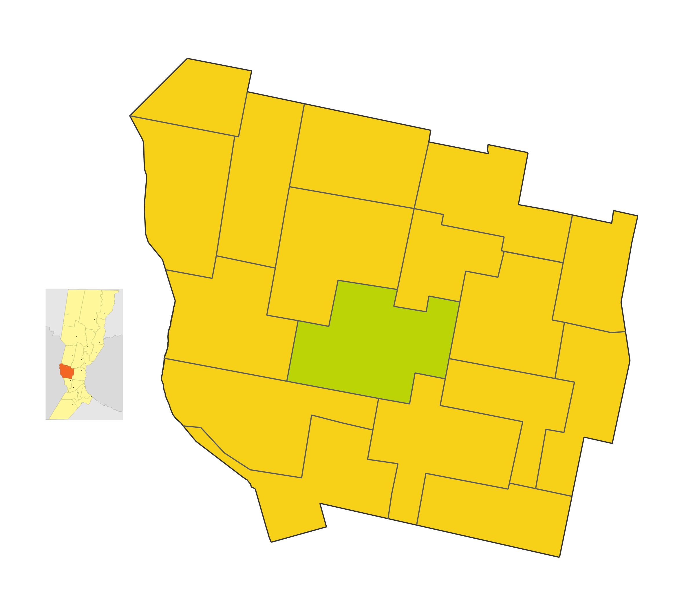 Map of the comuna de Pellegrini in San Martin department, Santa Fe province, Argentina